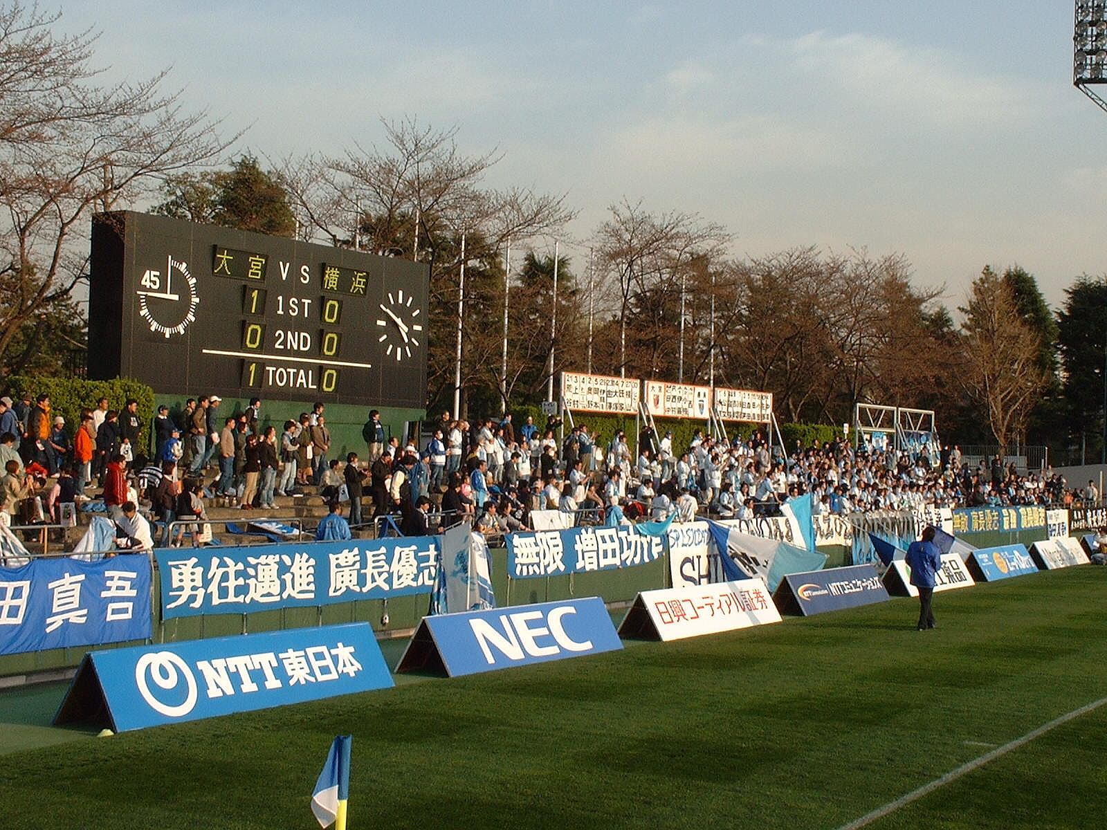 Oomiyapark stadium. 16-Mar-2003